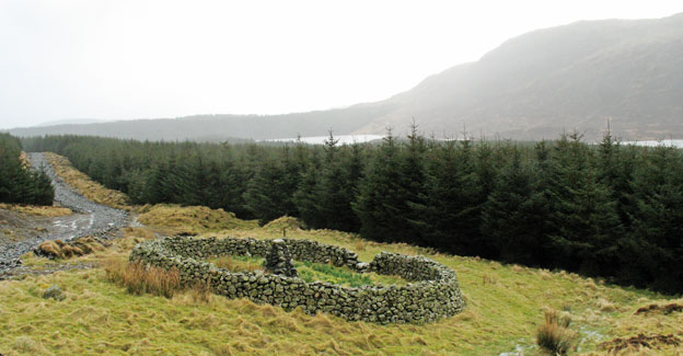 Monument to Ralph Furlow near Millfire Rhinns of Kells